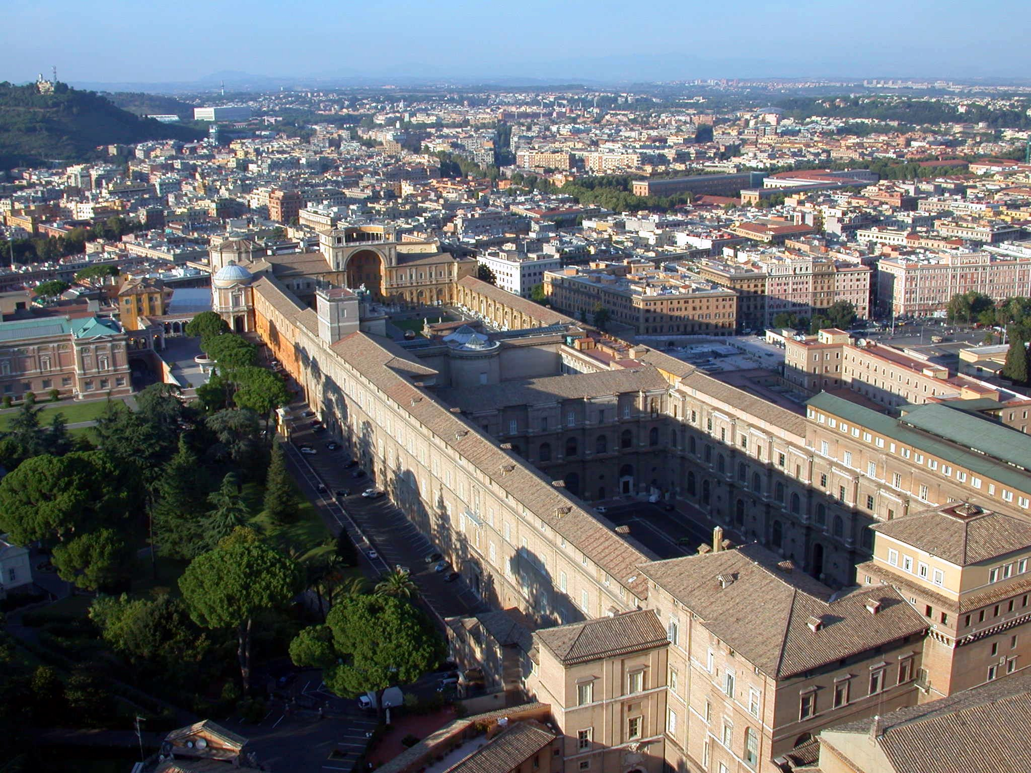 The Vatican Museums, Rome, seen from St. Peter's. Picture taken by F. Bucher